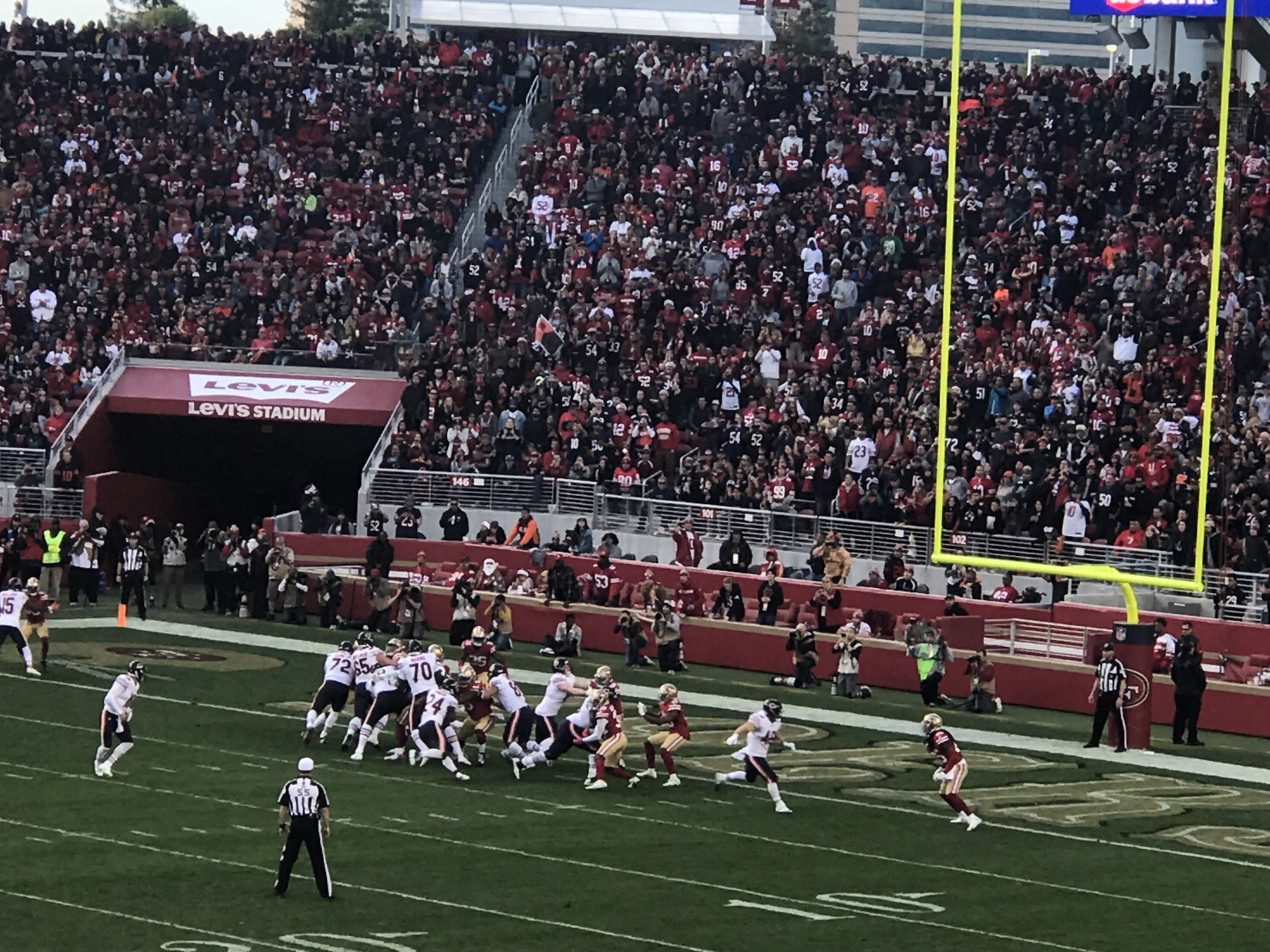 Bears vs 49ers 2018 Image 60